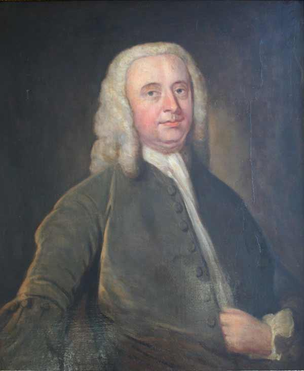 Thomas Rose (1679-1747) of Wootton House in the parish of Wootton Fitzpaine in Dorset, Sheriff of Dorset in 1715. Lawrences Auctioneers (Crewkerne) Fine Art Sale - Pictures, Furniture, Clocks & Rugs - Friday 17th October 2014, lot 2091: "FOLLOWER OF JEAN BAPTISTE VAN LOO (1684-1745) PORTRAIT OF THOMAS ROSE OF WOOTTON FITZPAINE, DORSET(1679-1747) Half length, wearing a grey coat and long wig, oil on canvas 74.5 x 62cm. ++ Lined; retouched and repaired tears/ holes to right, in the wig and elsewhere; a little thin in places"